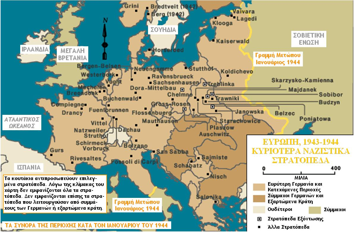 The major Nazi camps at Europe in the years 1943-1944.